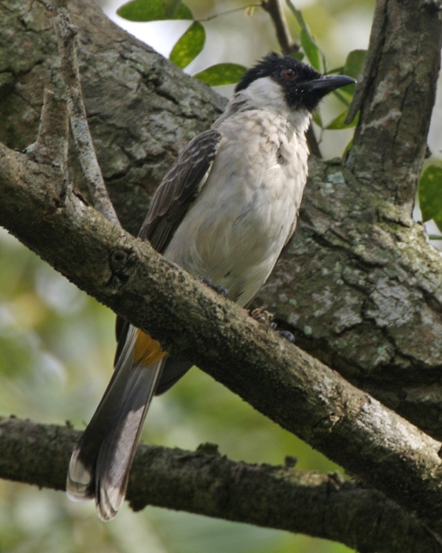 Sooty-headed Bulbul Pycnonotus aurigaster, nominate race Pycnonotus aurigaster aurigaster. Indonesian: Kutilang. Grounds of a disused zoo, Semarang, Java, Indonesia 690V2930